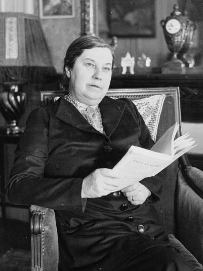 French writer Camille Marbo (1883-1969).